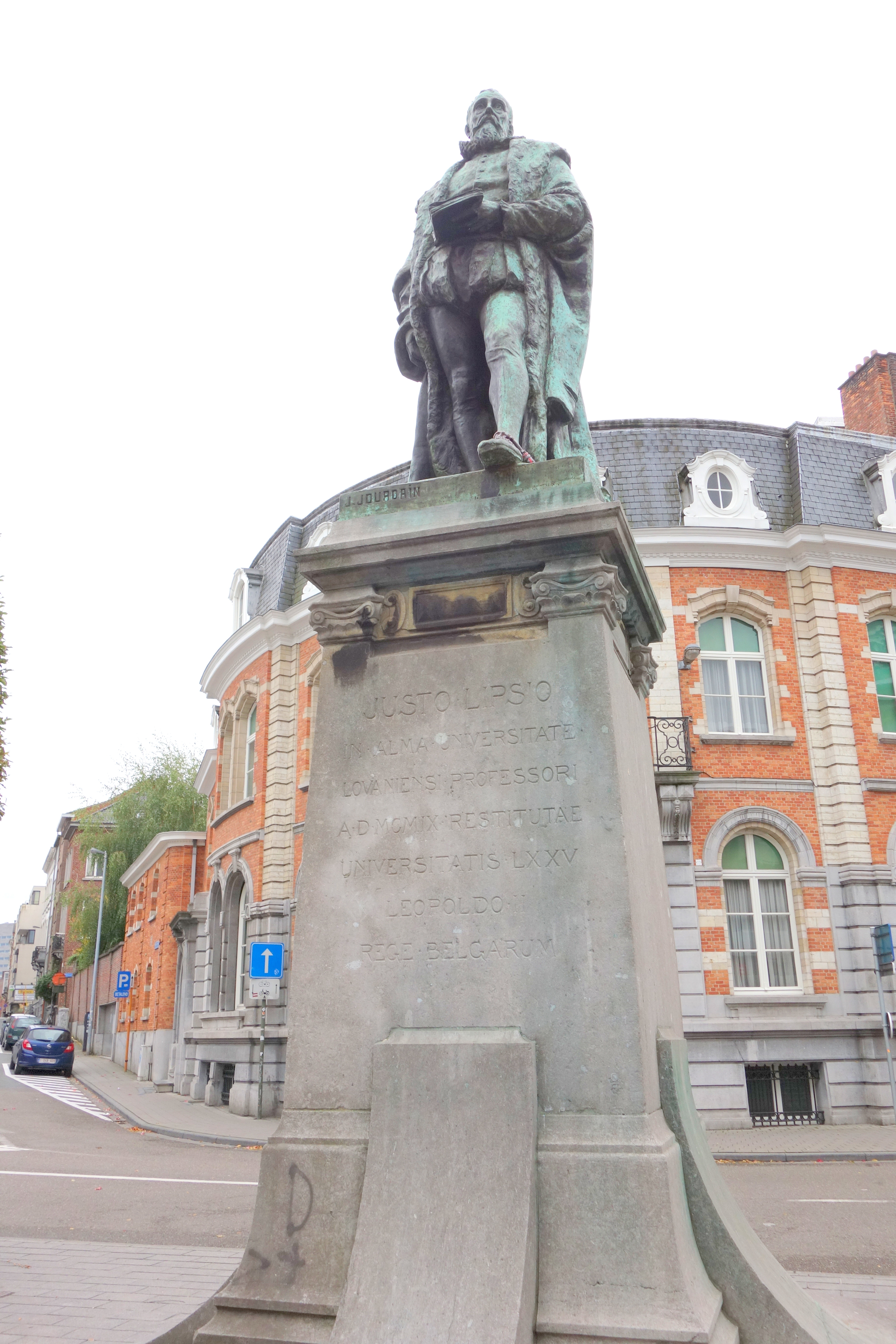 Monument to Justo Lipsio (Justus Lipsius) - Leuven, Belgium. This artwork is old enough so that it is in the public domain.